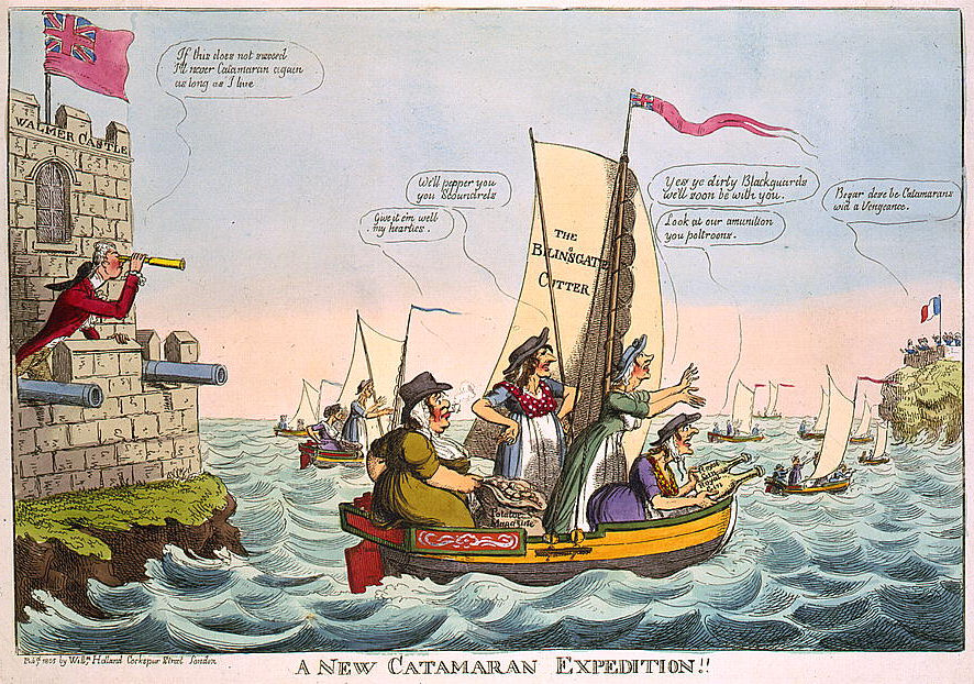 British engraving, a political satire cartoon by Isaac Cruikshank, titled A New Catamaran Expedition!!!", 1805. It is a detailed scene with various speech balloons. William Pitt the Younger (Lord Warden of the Cinque Ports and former Prime Minister) looks on from Walmer Castle, as a fleet of fishing boats sails out to attack a French fort across the English Channel. Pitt is saying, "If this does not succeed I'll never Catamaran again as long as I live." The Bilingsgate Cutter, in foreground, carries four fishwives (back then a shrewish woman stereotype) to terrorize the French. They are armed with a "potatoe magazine" (sack of potatoes, perhaps to throw) and two bottles of "royal gin" aimed like cannon. The women are shouting: "We'll pepper you scoundrels", "Give it 'em well, my hearties.", "Yea ye dirty Blackguards we'll soon be with you.", and "Look at our ammunition, you poltroons." Coming from the French fort is the reply, "Begar dese le Catamarans wid a Vengeance." (apparently eye dialect for something like "Bugger this, catamarans with a vengeance"). The point of the piece was to satirise Pitt's recruitment of 35 luggers manned by fishermen as a seaborne militia. The word "catamaran" was used for a fire-raft (used against French ports from 1804) and also a quarrelsome woman.